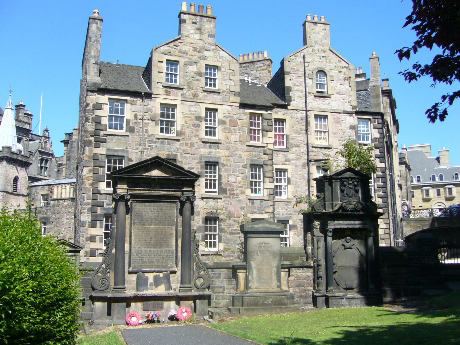 Martyrs' Monument (left) commemorating Covenanters who died between 1661 and 1688 ('The Killing Time') in Greyfriars Kirkyard